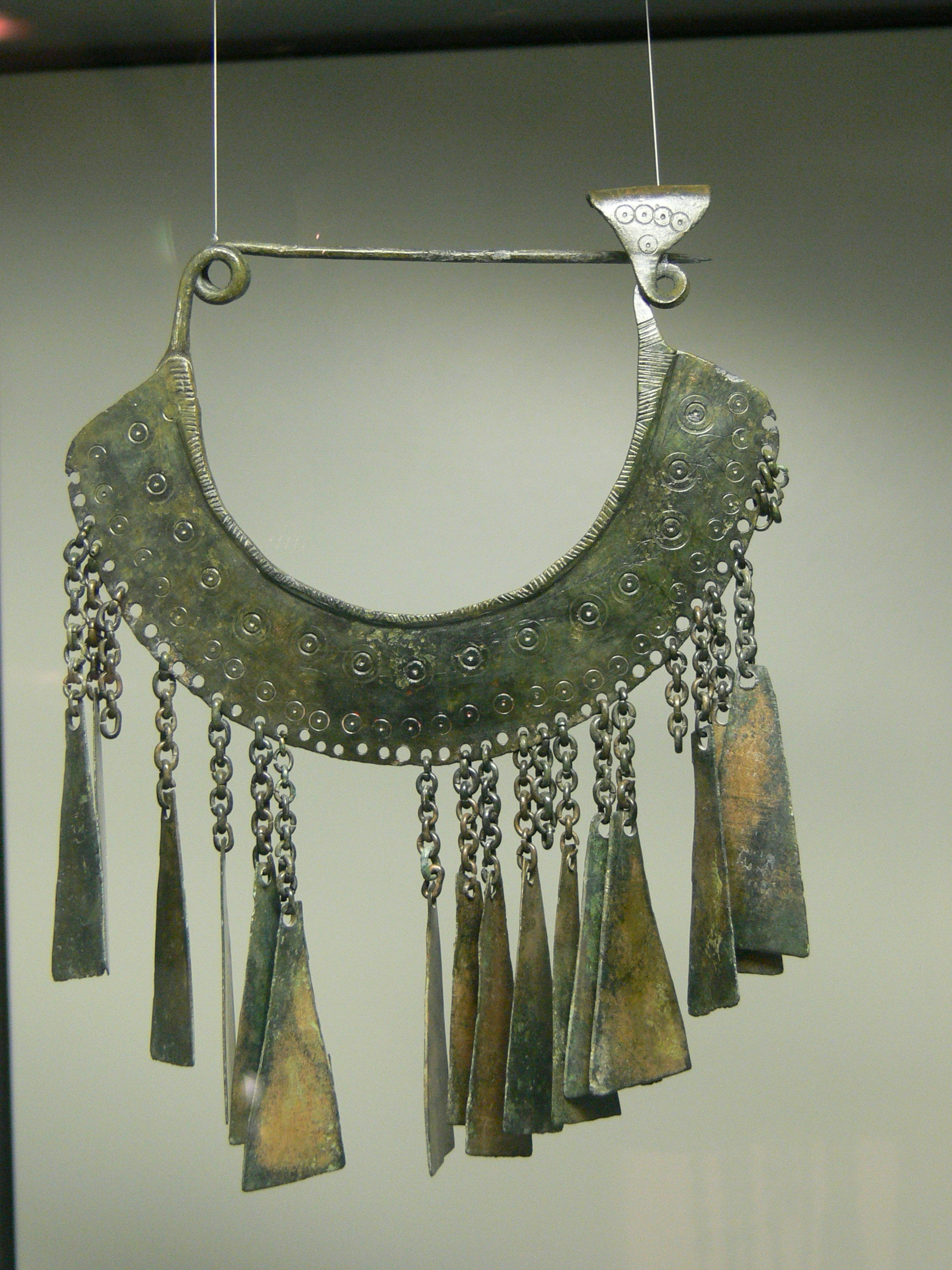 Castle museums in Linz ( Upper Austria ). Archeological collection: Celtic fibula from Hallstatt, Hallstatt culture.